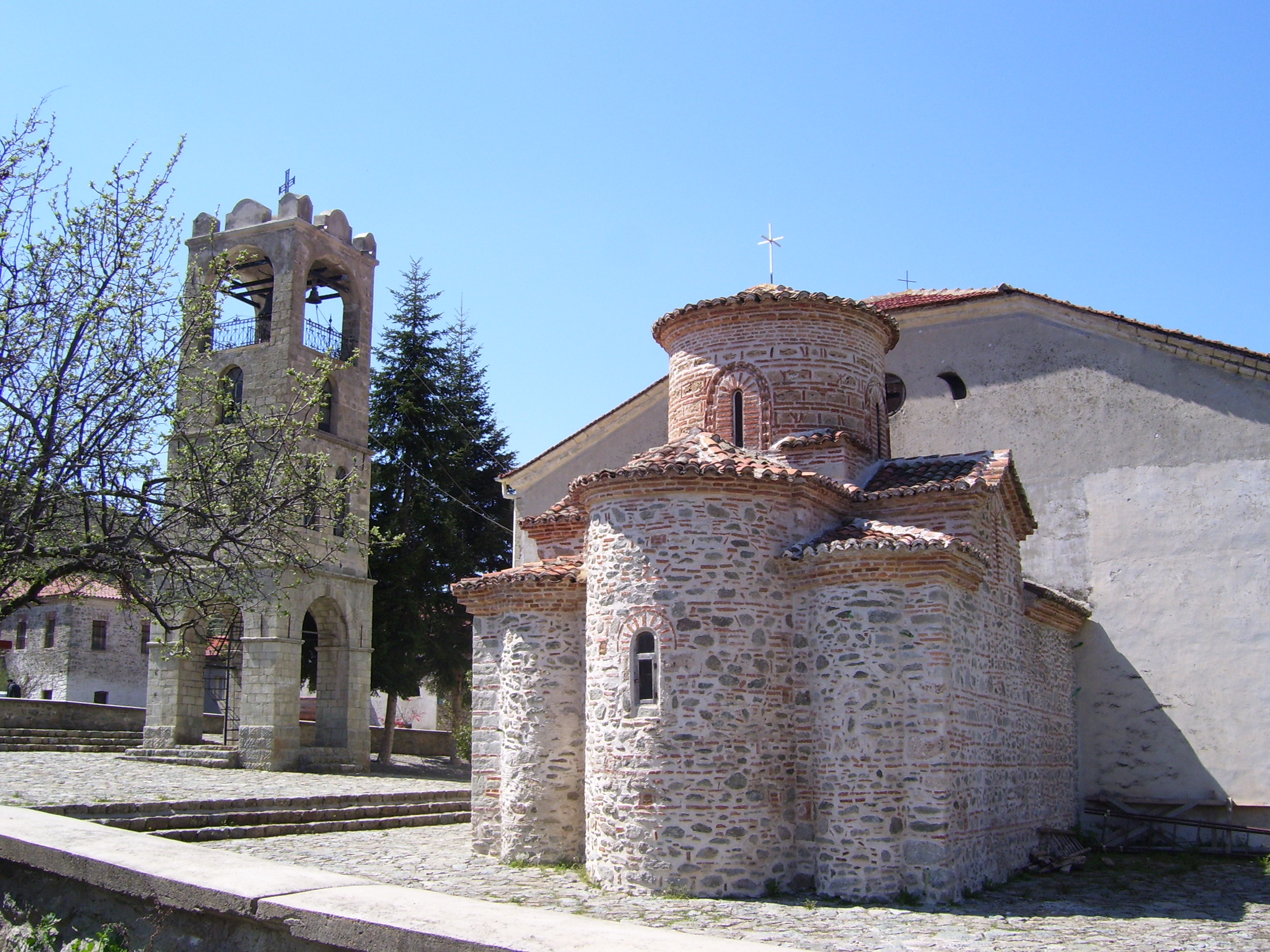 Medieval church of Saint Germanos in the village of Agios Germanos, Greece.